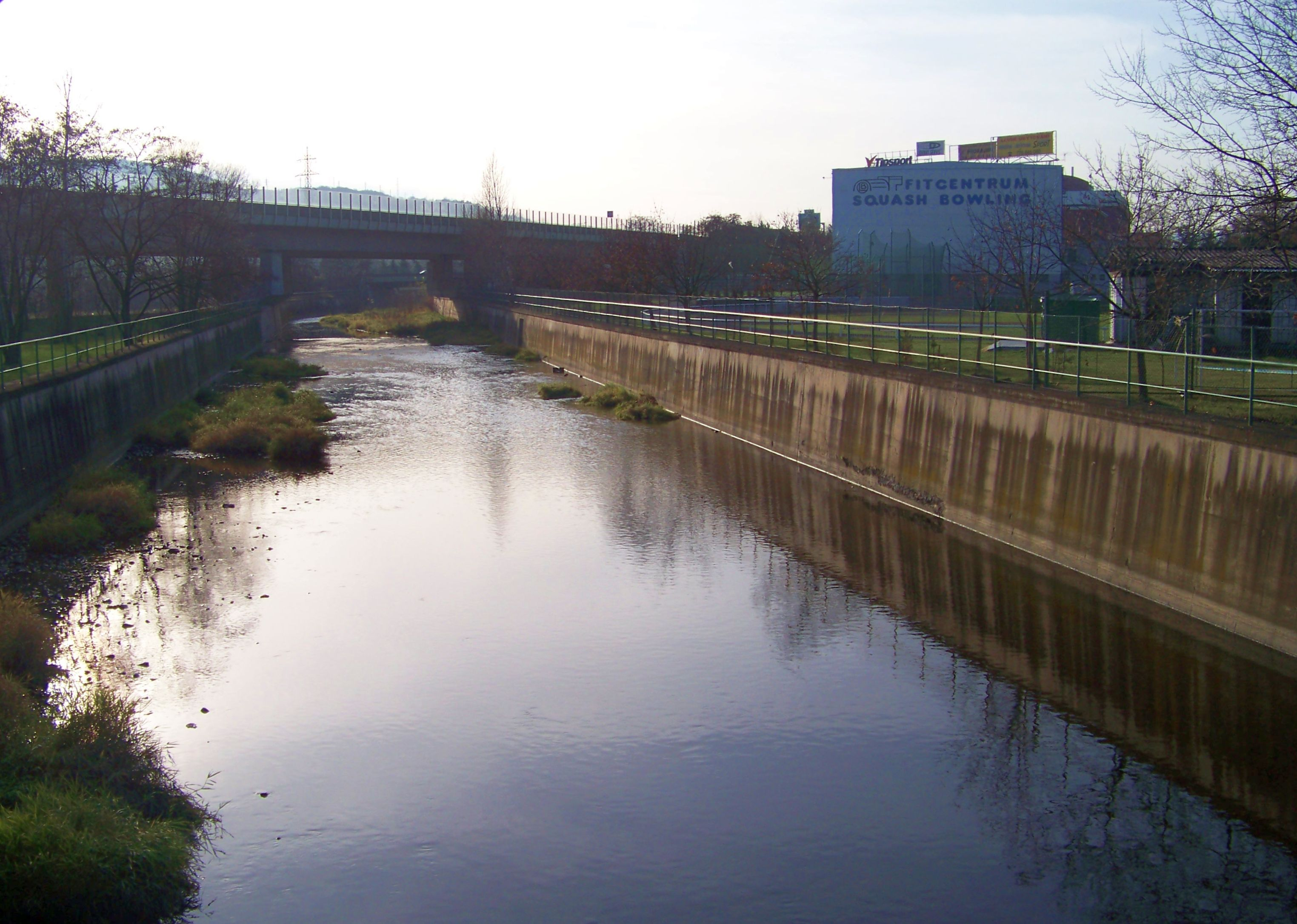 Beroun, Central Bohemian Region, the Czech Republic. Litavka River, highway bridge.